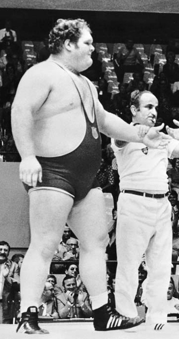 Wrestling at the 1972 Summer Olympics – Men's Greco-Roman +100 kg, Chris Taylor